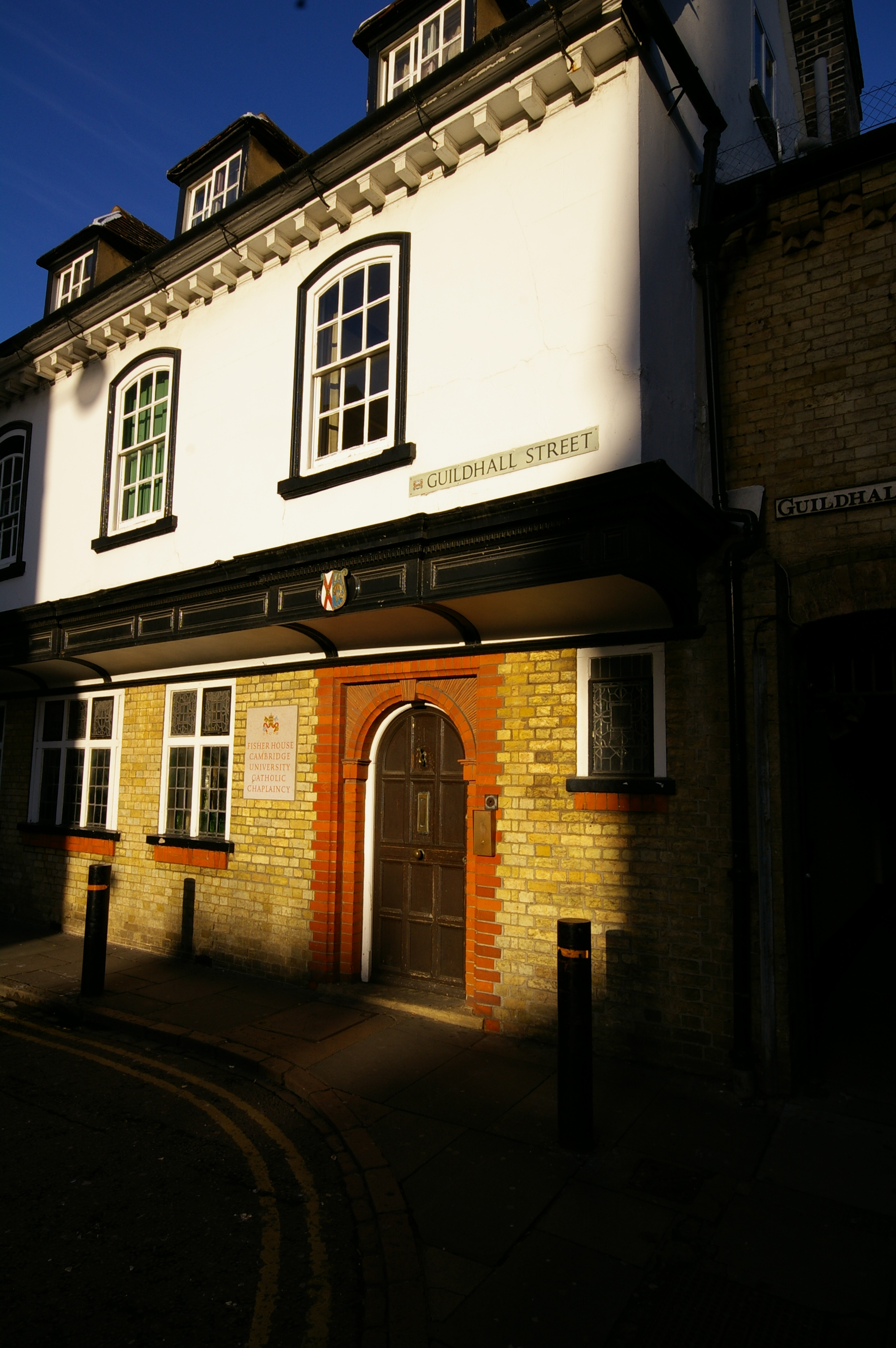 Fisher House, Cambridge Fisher House has been the home of the Cambridge University Catholic Chaplaincy since 1924. It's named after St John Fisher. Here, it's illuminated by a shaft of light down Wheeler Street while most of the surrounding buildings are in shadow.